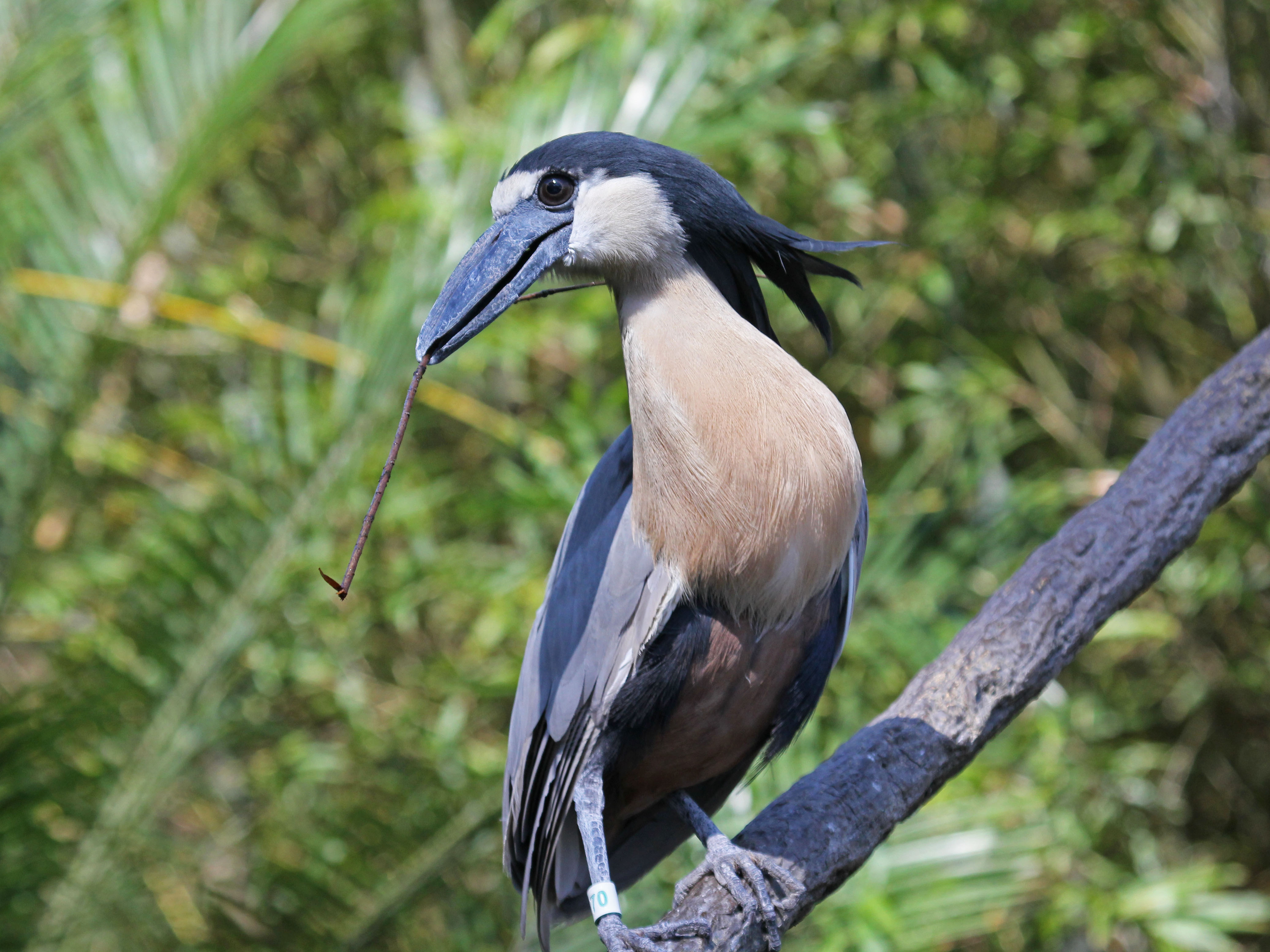 Boat-billed Heron (Cochlearius cochlearius) - Jacksonville Zoo, Florida